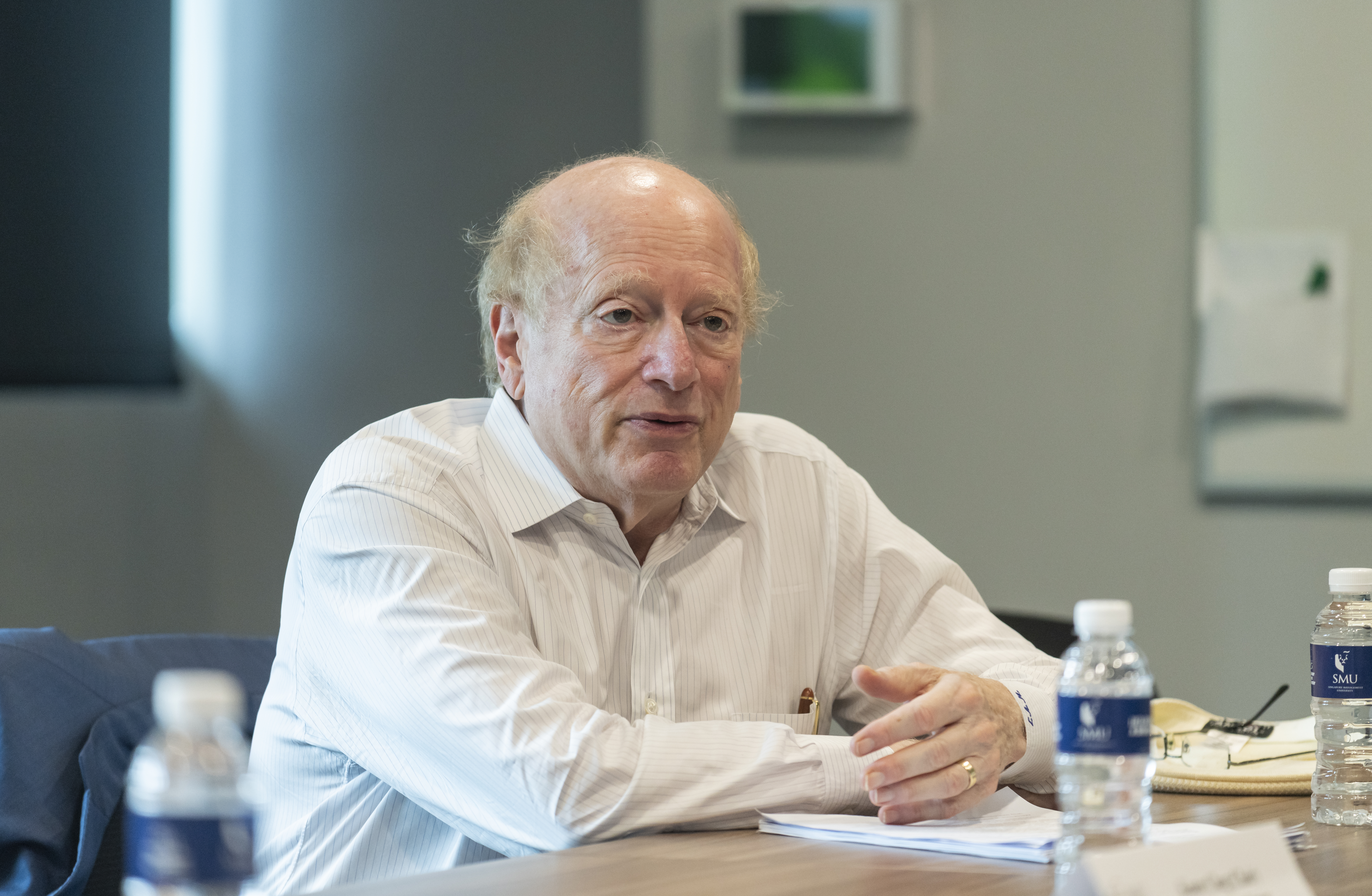 Mark Tushnet Harvard Law at Singapore Management University 2018